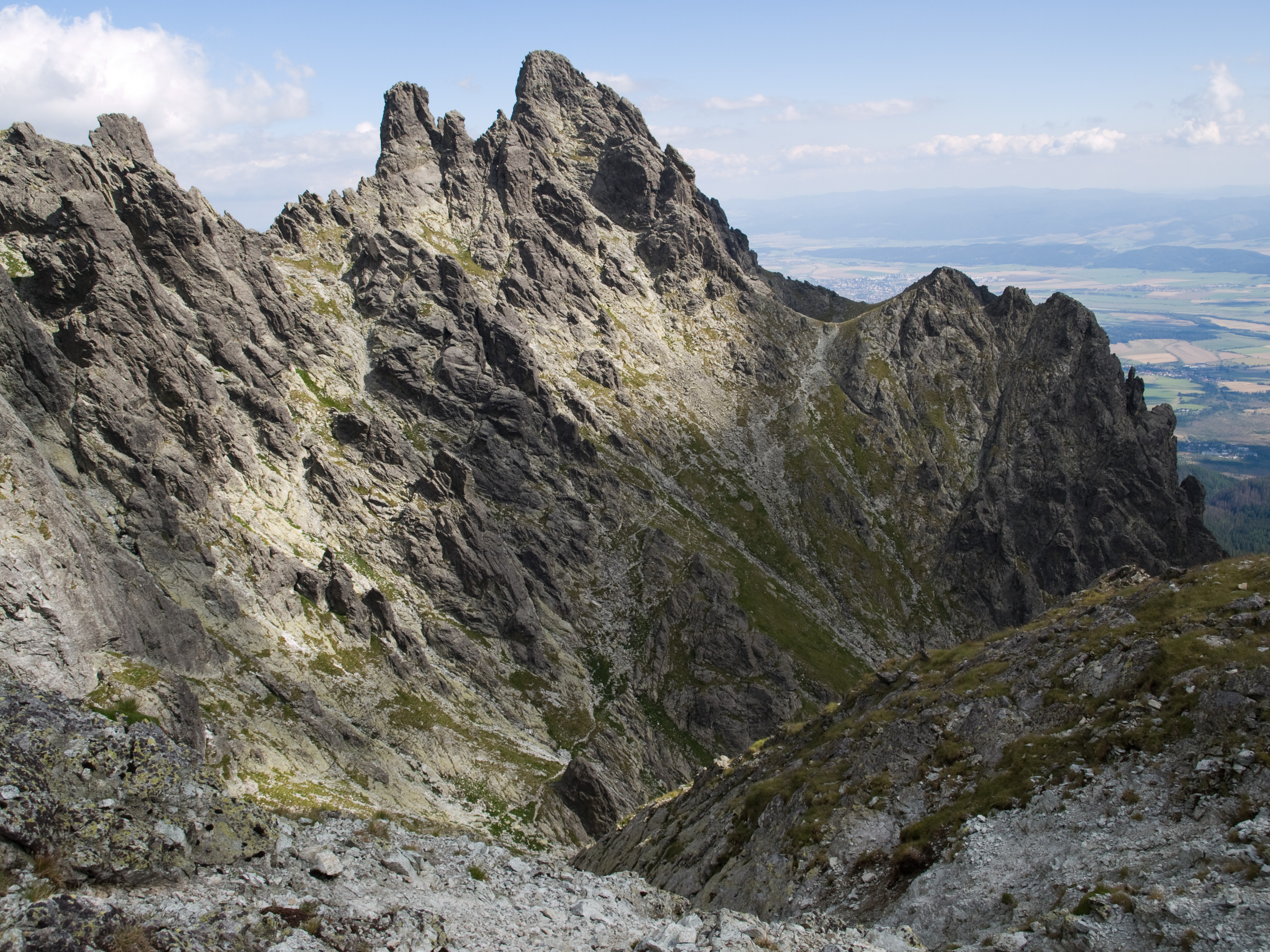 Granátový roh, Malá Granátová veža, Veľká Granátová veža, Vyšné Granátové sedlo, Granátová stena. View from Opálové sedlo.